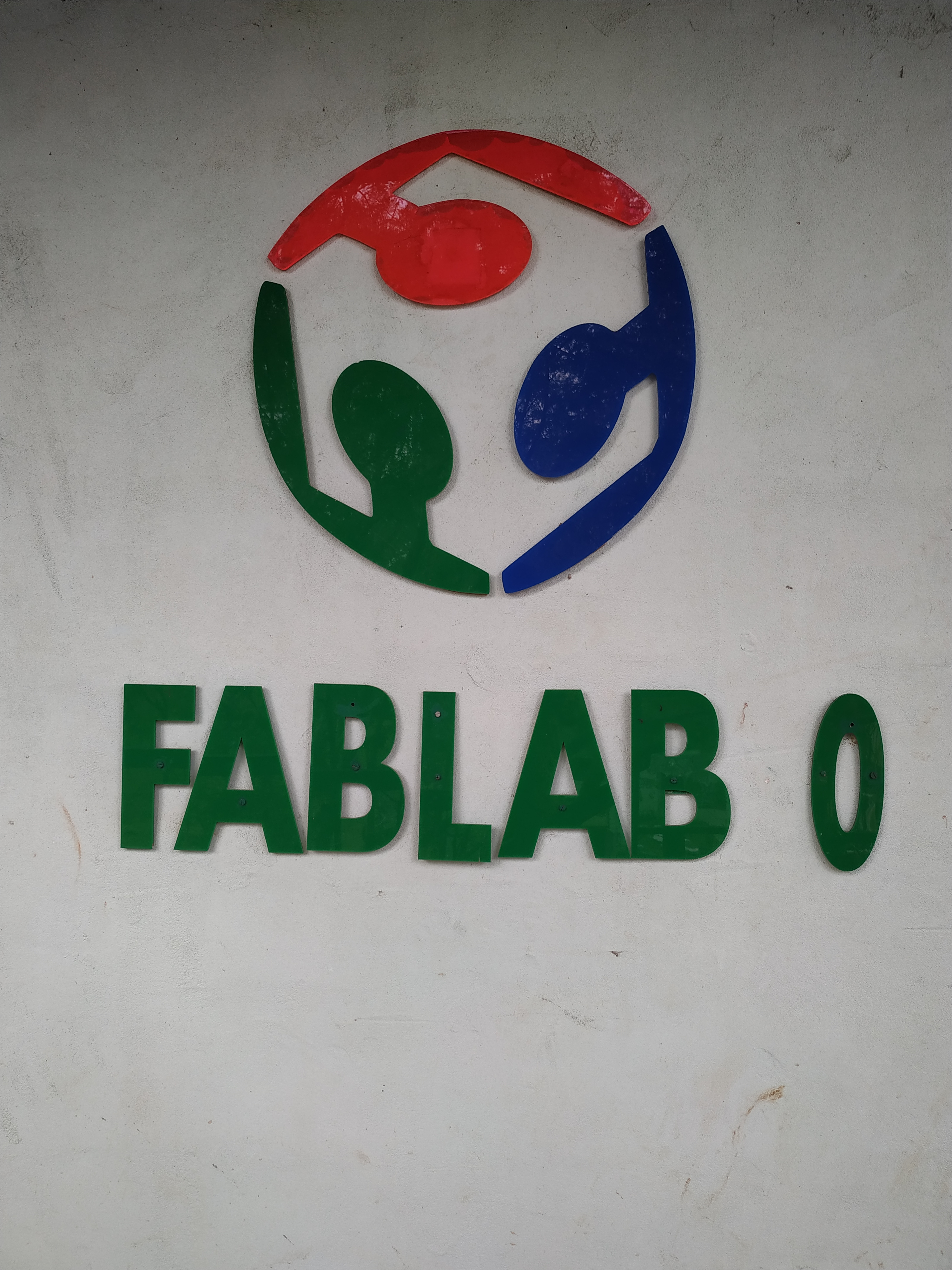 Fab lab 0